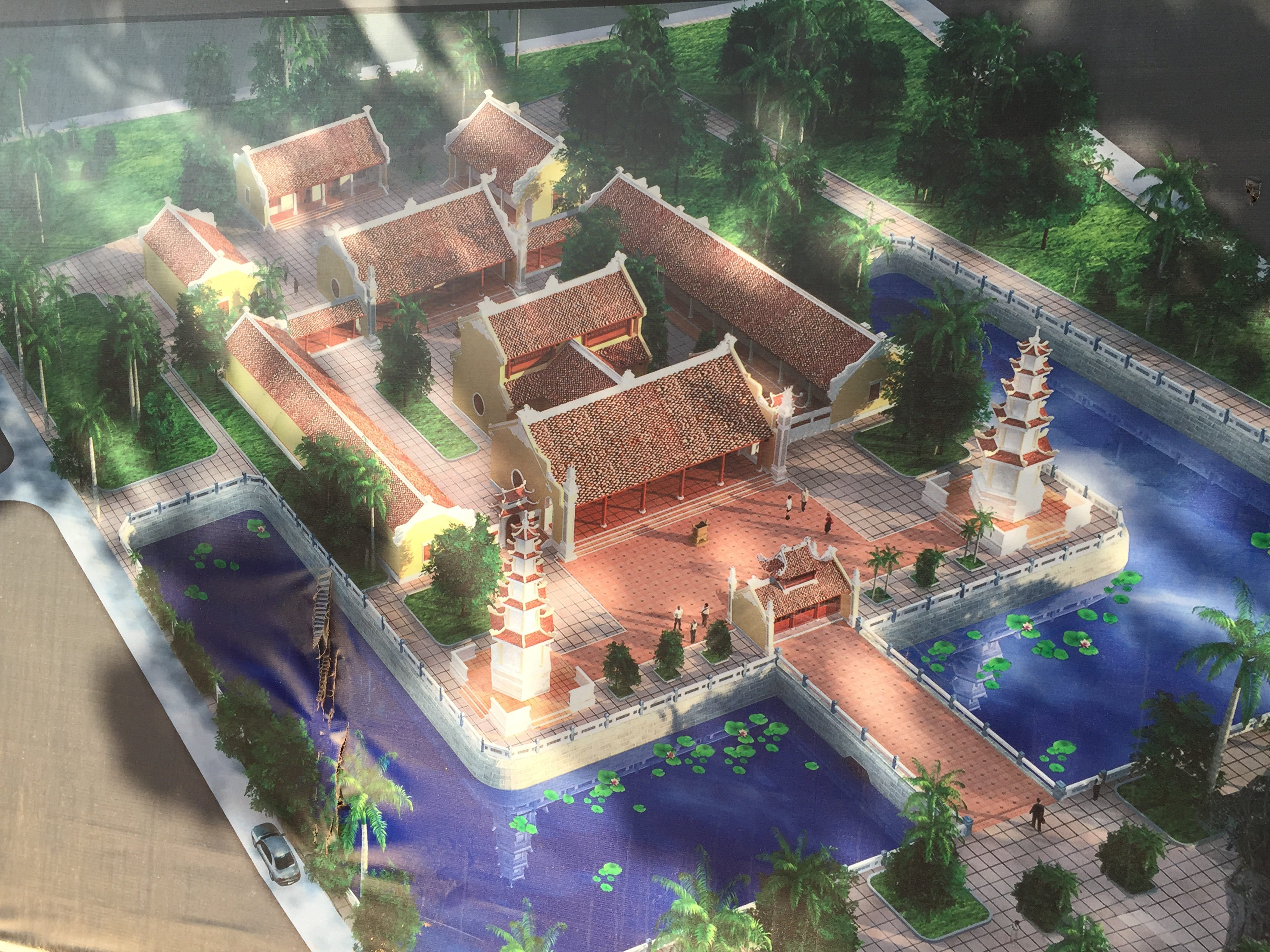 Publicly announced reconstruction view of Hoang Phuc Pagoda in My Thuy, Le Thuy District, Quang Binh Province, Vietnam